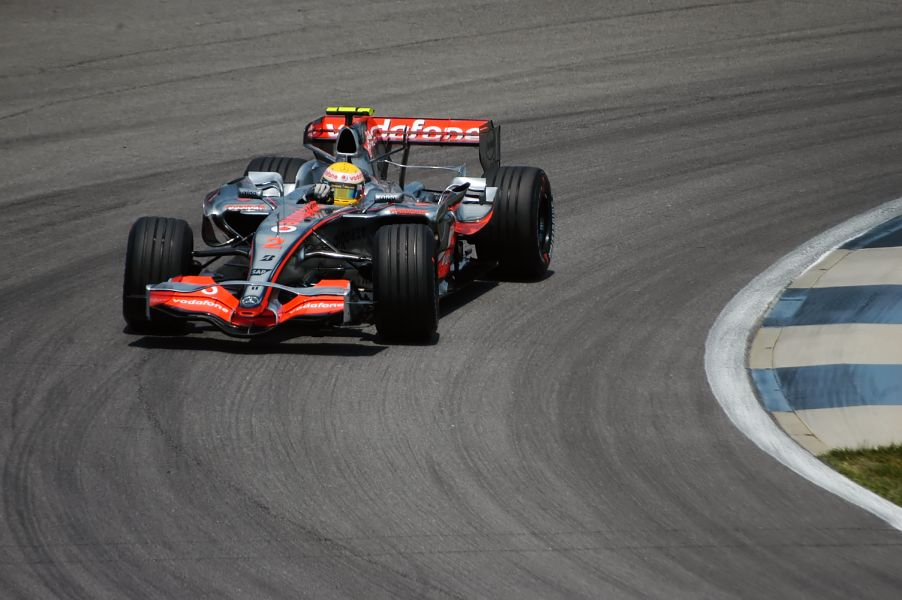 Lewis Hamilton driving for McLaren at the 2007 United States Grand Prix.